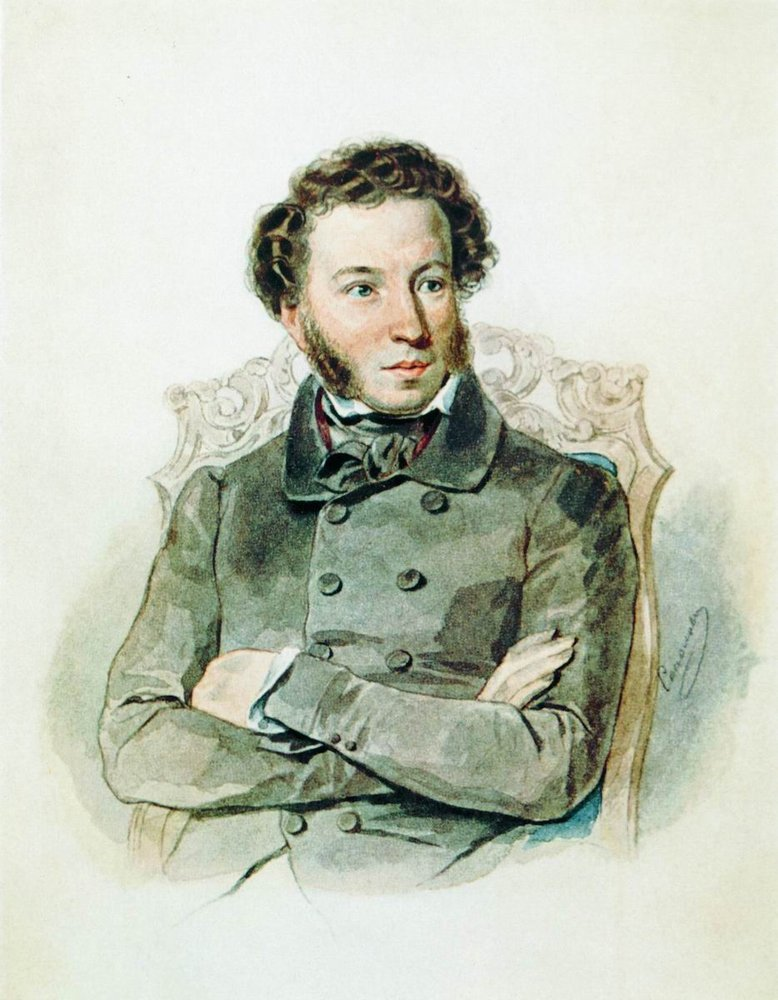 Russian poet Alexander Pushkin (1799-1837)